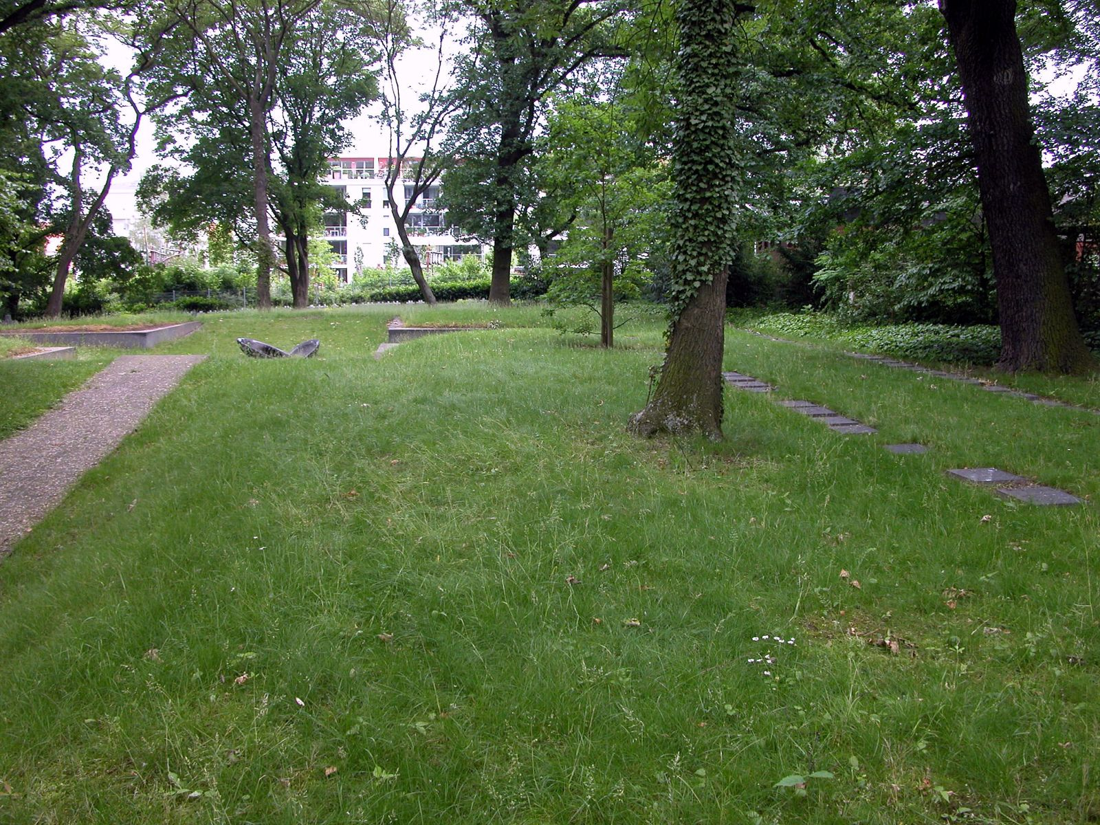 Brunswick, Germany: Former cemetery of St. Nicolas’ Parish.